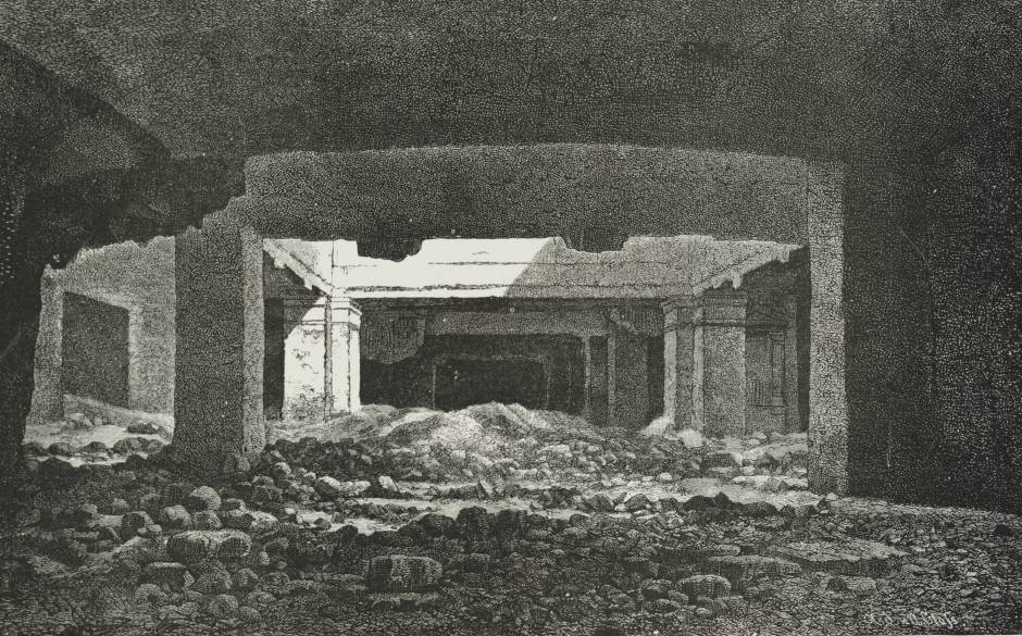 CATACOMBS IN ALEXANDRIA. A ruined catacomb, with rubble strewn across the floor and light coming in from above.